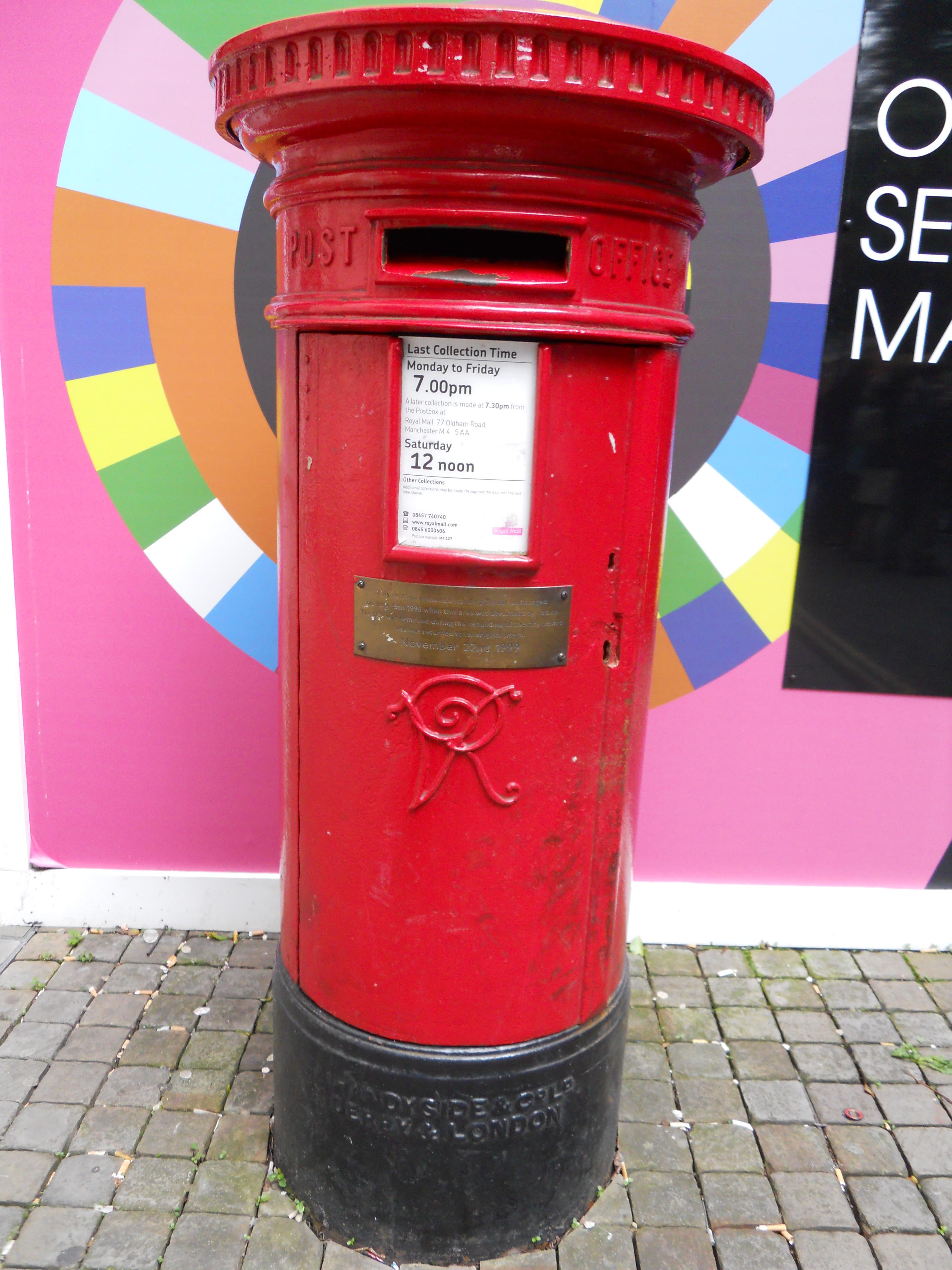 The Manchester bombing memorial postbox in Corporation Street. This photo was taken at the exact moment of the anniversary, 15 years later.